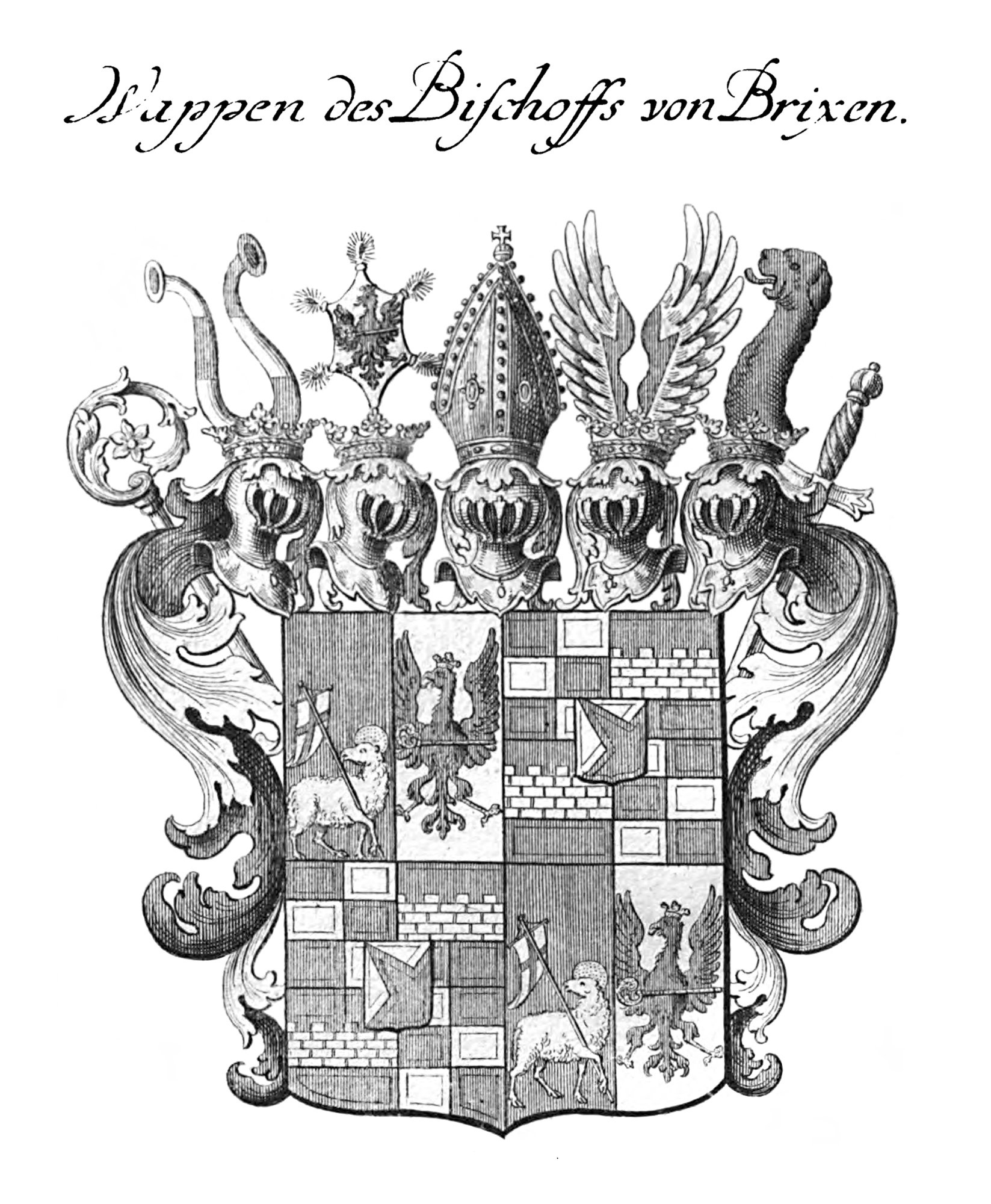 Coats of Arms of Kaspar Ignaz von Künigl, Princebishop of Brixen (1671-1747)